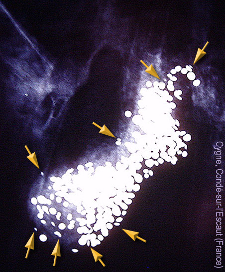 Radiography of a swan found dead in Condé-sur-l'Escaut (North of France), highlighting a large number of lead shot from hunting cartridge, and ingested with the Grit. The swans that feed in front of hunters's huts or in front of shooting positions are very frequently victim of "waterfowl lead poisoning". Here the number of lead is exceptionally high (some hundreds), and caused the death of the animal (12 small lead pellets are enough to kill an adult swan within a few days. The poisoned swans were also more likely to collide with an obstacle (power line, for example) or vehicle. Their body will be a new source of environmental contamination of toxic lead. It is noted that a new swan population has recovered in the late 1990s in the marsh audomarois, but it feeds mainly on land, which is a source of conflict with the gardeners who cultivate drained areas and emergent marsh (Is this an adaptive behavior, the result of natural selection, with the appearance of a new behavior limiting the risk of ingesting lead pellets) It should be noted that the occurrence and prevalence of lead poisoning avian sontplus higher in Europe and North America where they were first studied. See data collected by RAFAEL MATEO (Instituto de Investigación en Recursos Cinegéticos IREC, CSIC, UCLM, JCCM) for his presentation WILD BIRDS IN Lead Poisoning IN EUROPE AND THE REGULATIONS ADOPTED BY DIFFERENT COUNTRIES upon Conference entitledIngestion of Spent Lead Ammunition; Implications for Wildlife and Humans (organized by the "Peregrine Fund" (Boise State University Idaho. May 12-15, 2008). Proceedings of the conference, which led to the book: [https: / / / 3382279 Ingestion of Spent Lead Ammunition from: Implications for Wildlife and Humans, co-written by Richard T. Watson, Mark Fuller, Mark Pokras, Grainger Hunt] 2009/04/28; ISBN/EAN13: 0961983957 / 9780961983956, 394 pages.